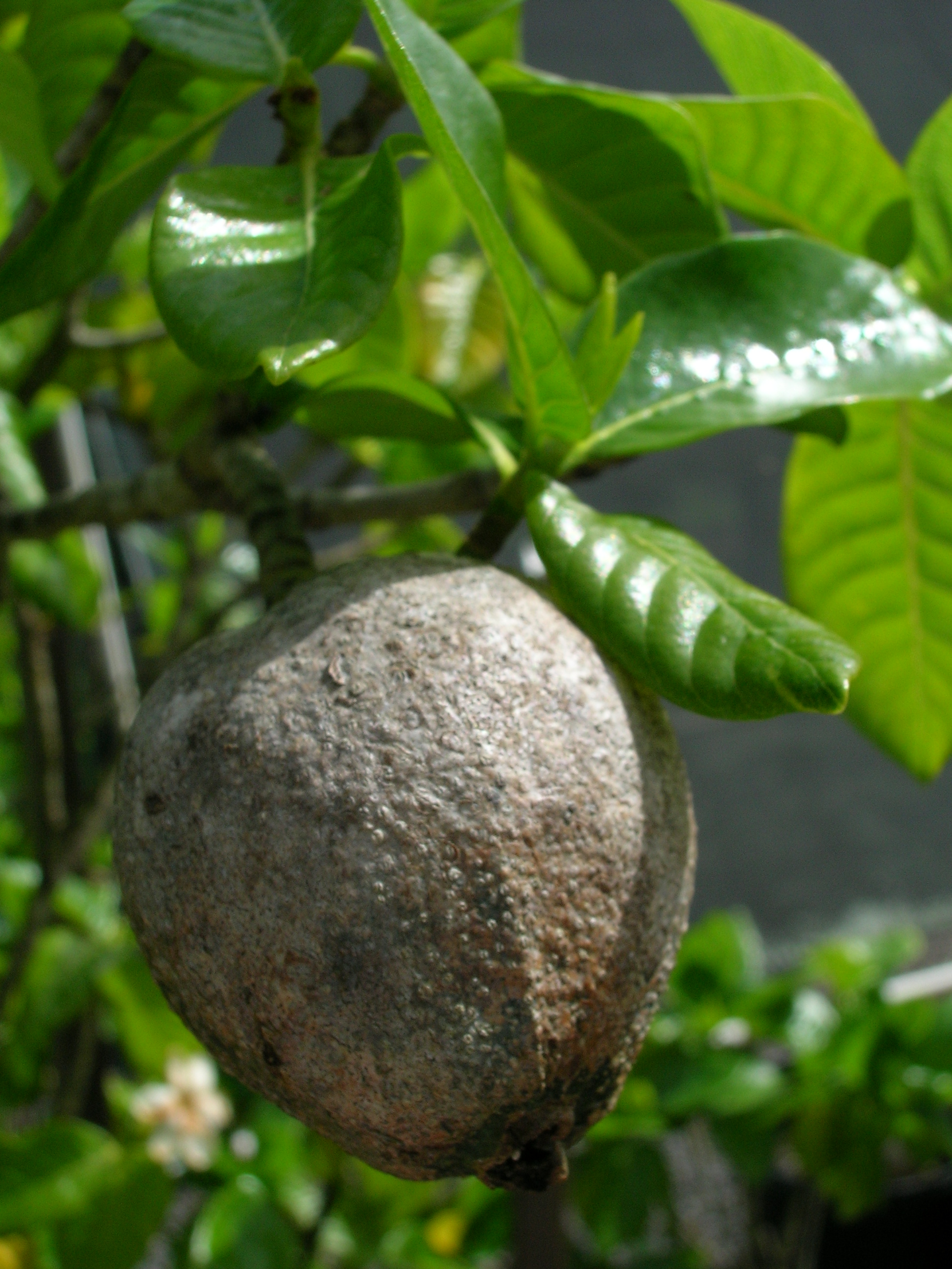 Gardenia brighamii (fruit). Location: Maui, Hoolawa Farms